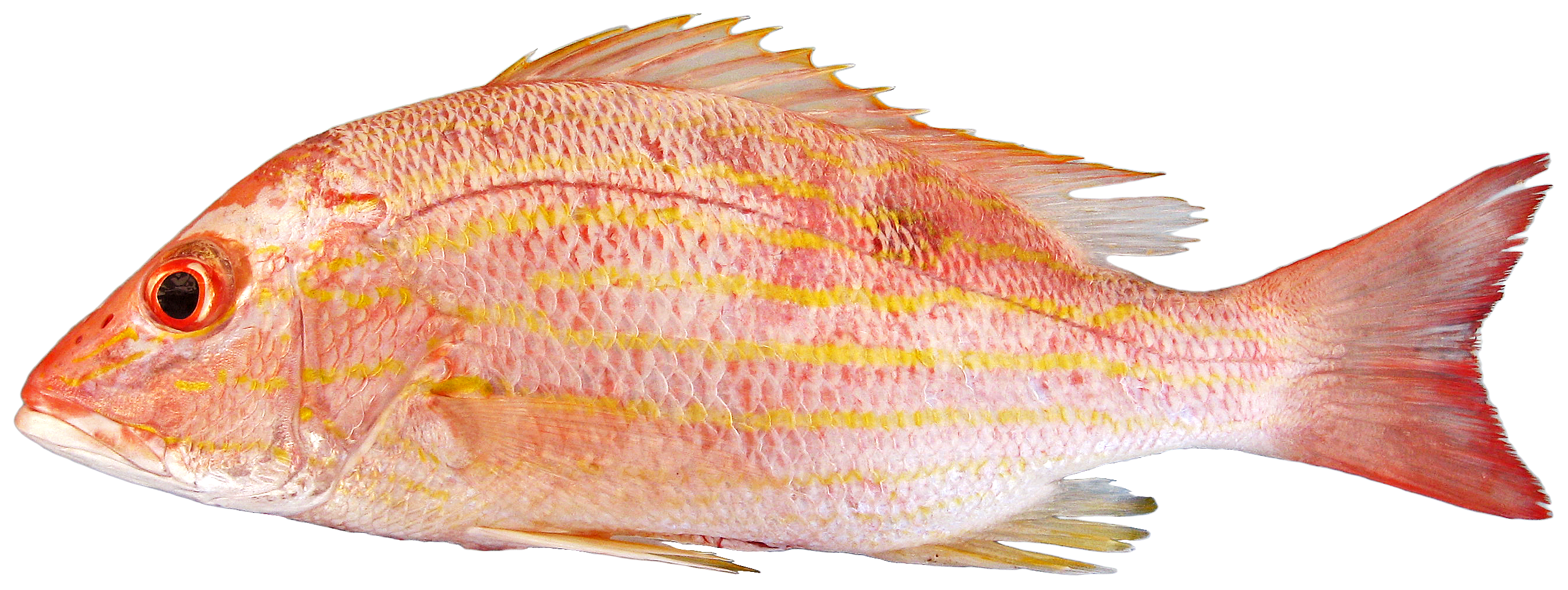 Lutjanus synagris (Linnaeus, 1758)—lane snapper, 208 mm SL. Photo by W Toller.